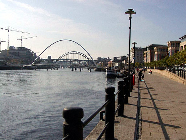 upload my own photograph